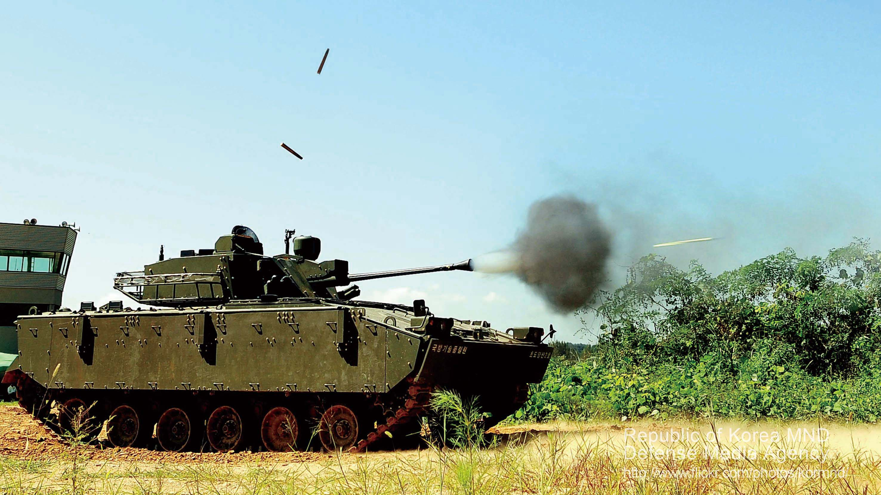 2010 국방화보 Rep. of Korea, Defense Photo Magazine K - 21 보병전투 장갑차 K-21 infantry fighting vehicle